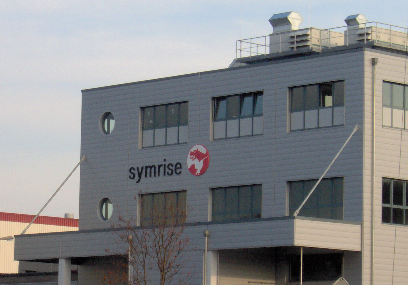 Logo at a building of the Symrise AG in Holzminden, Germany.